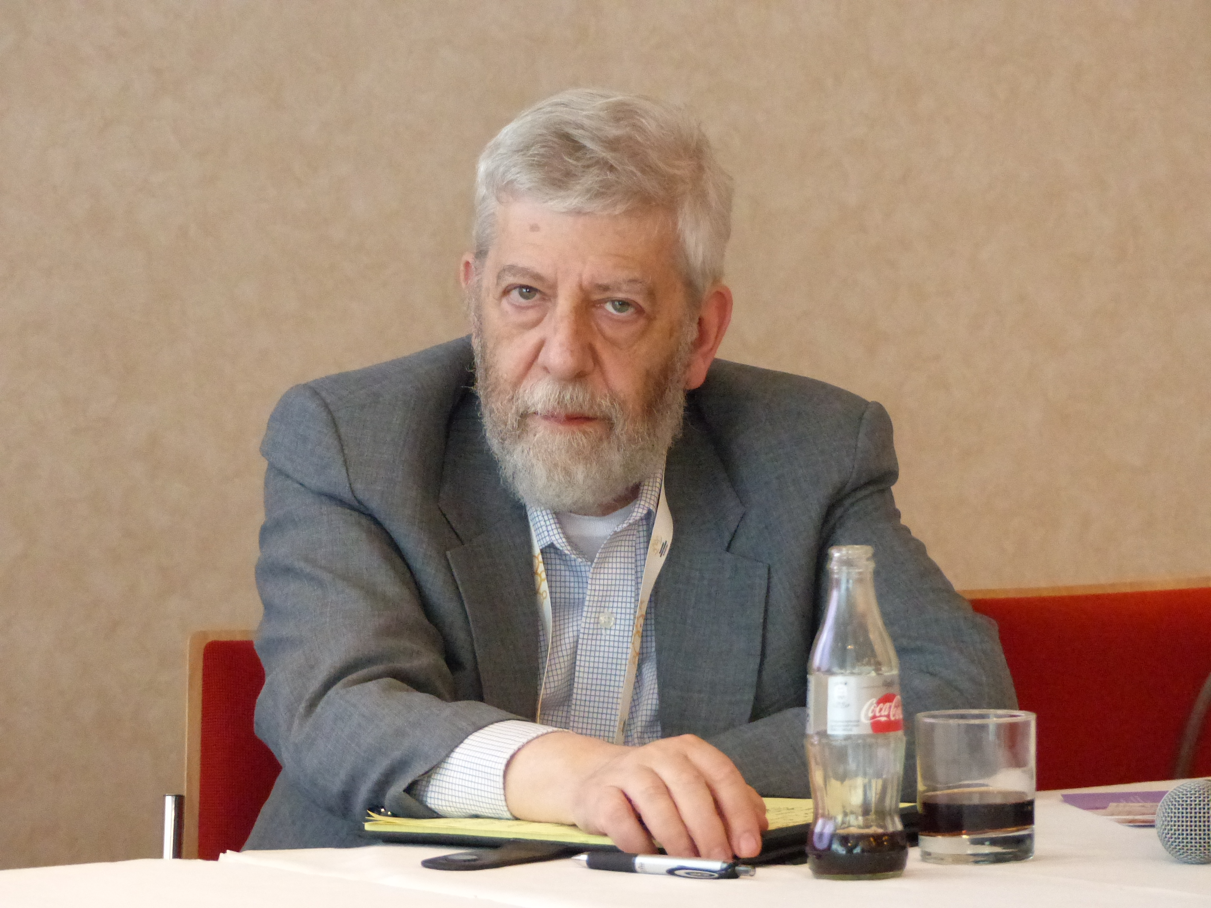 Don Feder. Communications Director of the World Congress of Families. Media consultant and free-lance writer. Feder operates Don Feder Associates, a communications firm for non-profits with a message (those promoting faith, family, freedom and national security).